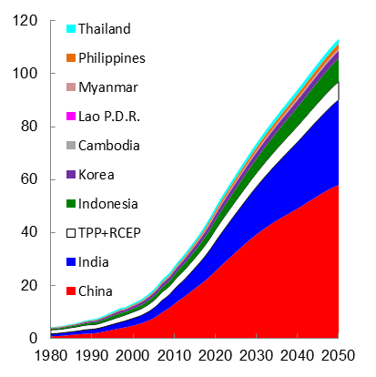 GDP projection for RCEP countries to 2050.